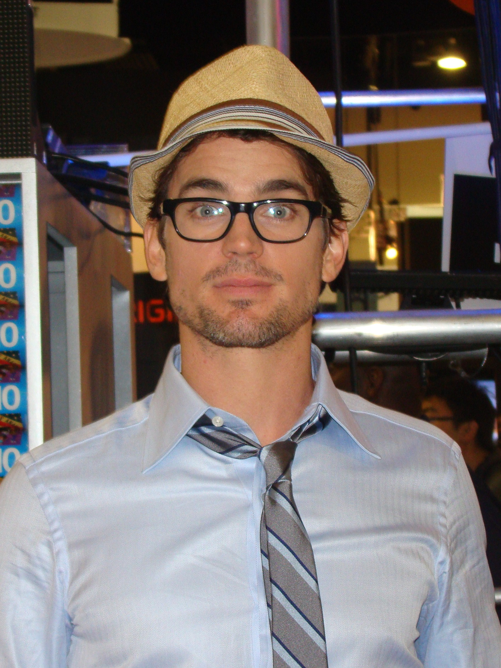 Actor Matthew Bomer